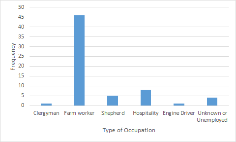 Bar Chart showing Occupation of usual residence of Burmarsh Kent in 1881